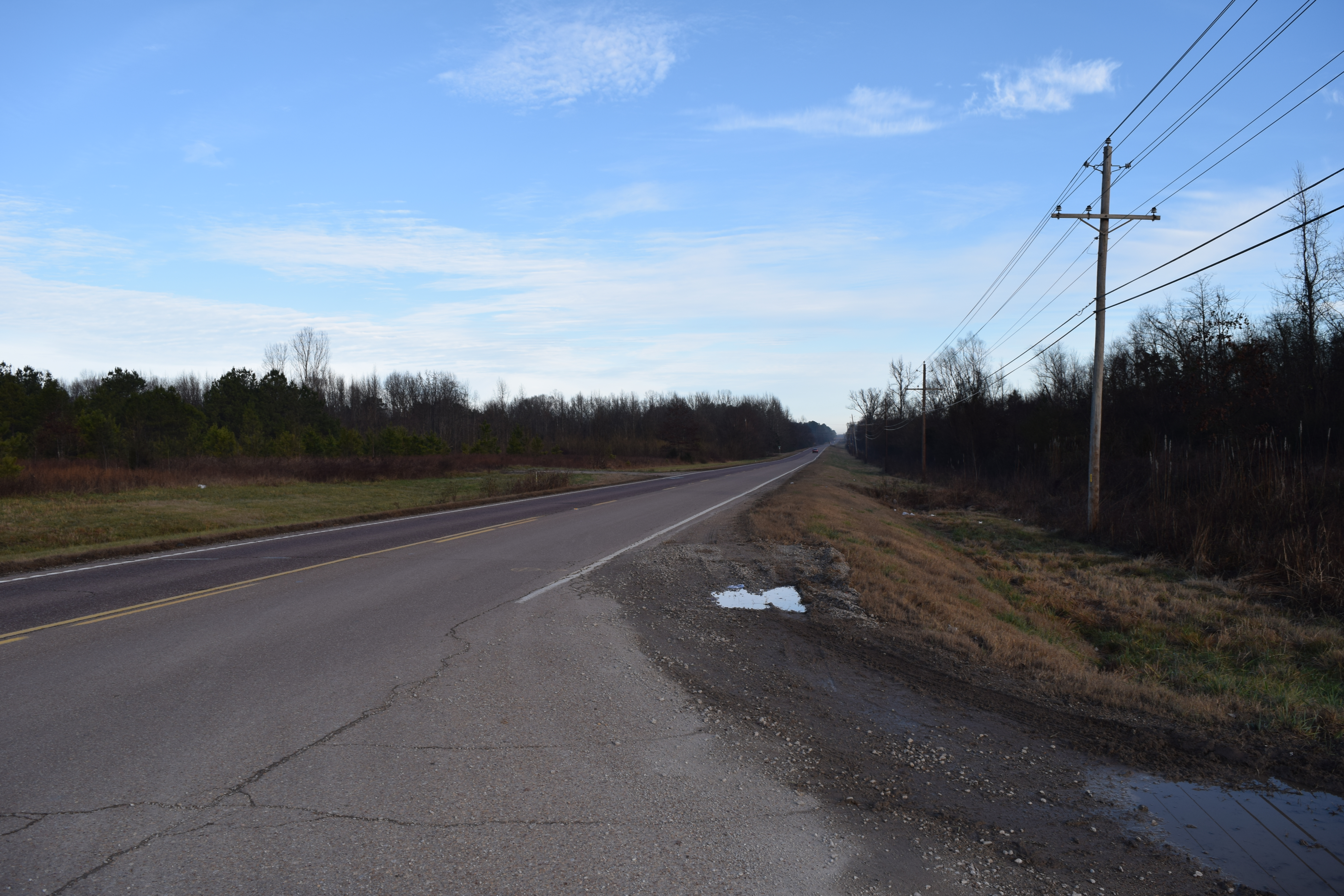 Looking north along Tennessee State Route 125 just north of the Mississippi State line